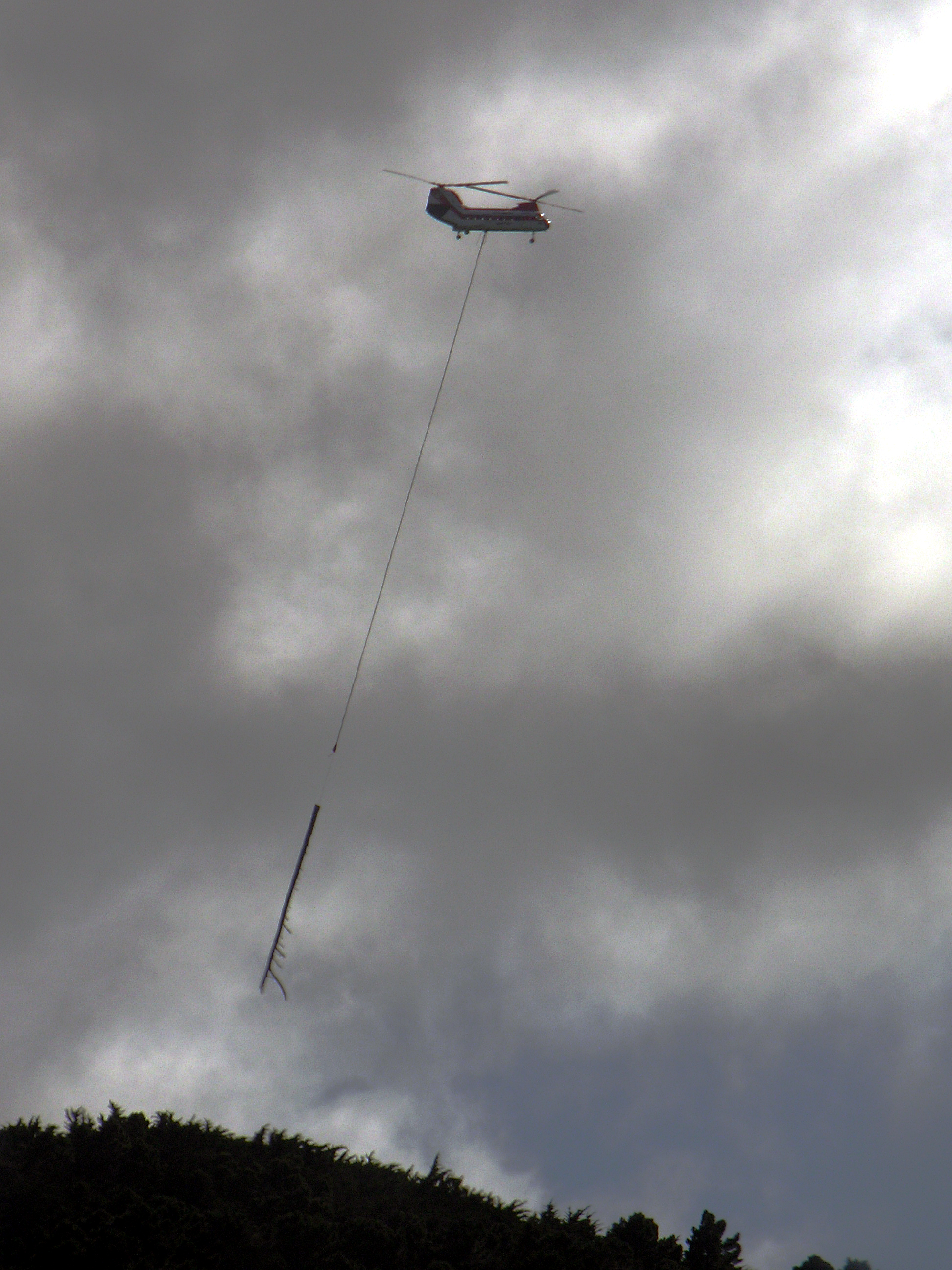 Despite appearances,and despite the fact that the helicopter bears an American registration, this was taken from my downtown office, and the operation was going on within 300 metres of the New Zealand parliament. The trees were blown down in a storm in 2004.